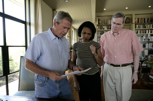 United States of America President George W. Bush meets with Secretary of State Condoleezza Rice and National Security Advisor Stephen Hadley at the Bush Ranch to discuss the Middle East.